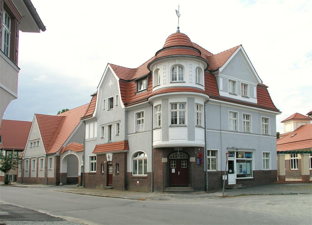 Senftenberg-Marga, Brandenburg, Germany: market-place, photo 2003